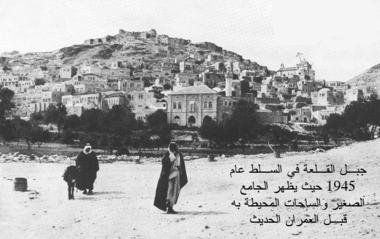 Salt City in the Kingdom of Jordan ( Middle east ) , a whole historical city buildings, this view was since the year 1945 , exposured from the down town area now